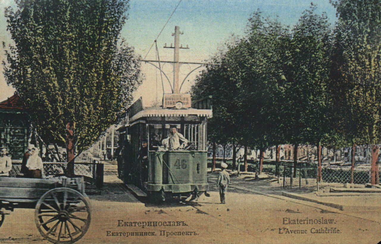 Фото начала 20 века.